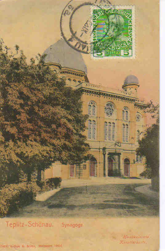 Detail of the front facade of the Teplice Synagogue